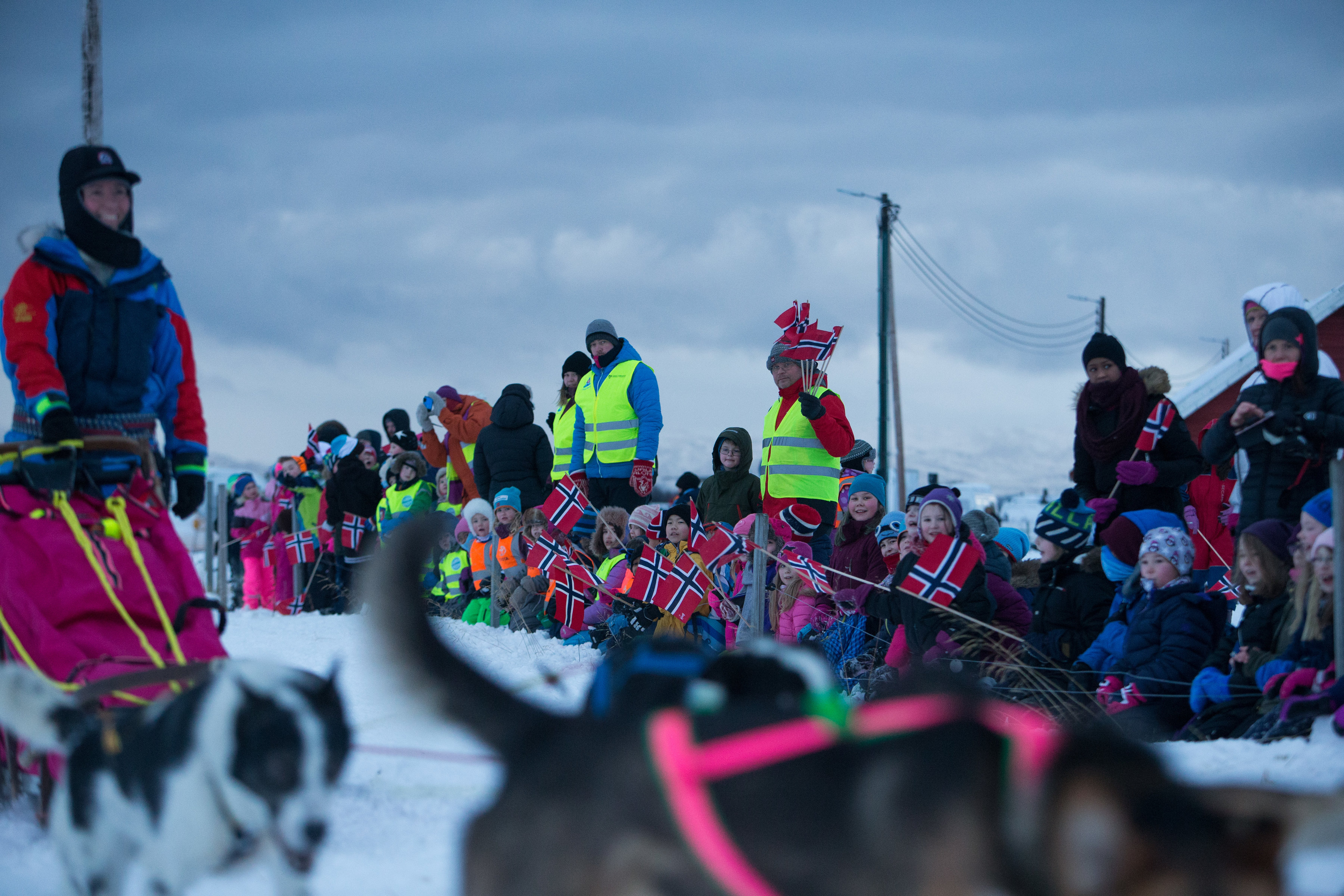 Vadsø, NORWAY, February 2. 2017 - Bergebyløpet N70 ©Samuel Bay/VTHK